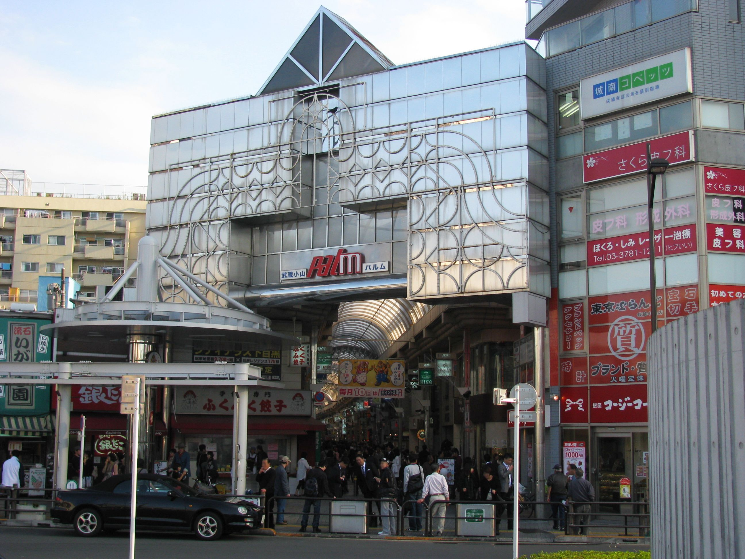 The Musashi-koyama Palm is Shopping arcades in Japan. This location is Koyama in Shinagawa, Tokyo, Japan.